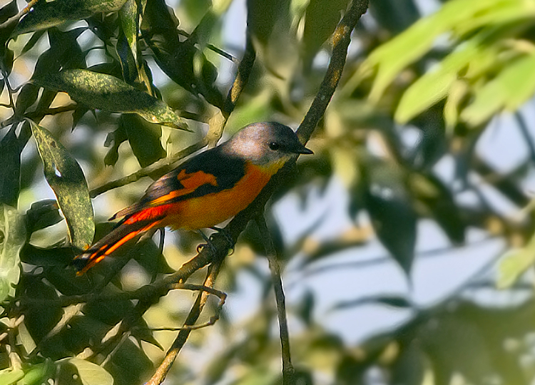 The species Grey-chinned Minivet was photographed during GoingWild's birding trip at Mahananda Wildlife Sanctuary in West Bengal, India on 01.11.2015.